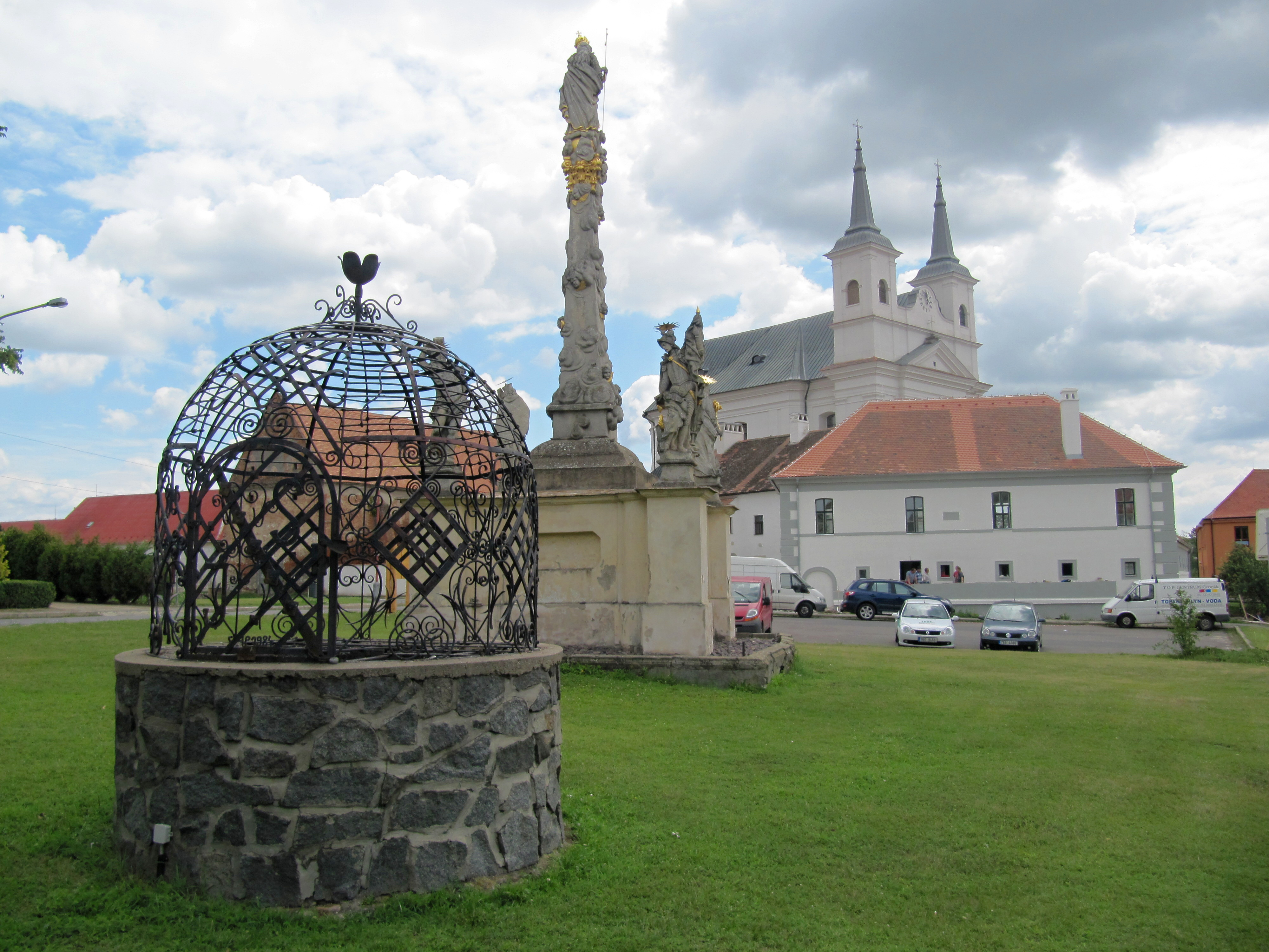 Drnholec in Břeclav District, Czech Republic. Náměstí svobody square with a fountain, the column with a statue of the Virgin Mary and the Church of the Holy Trinity.